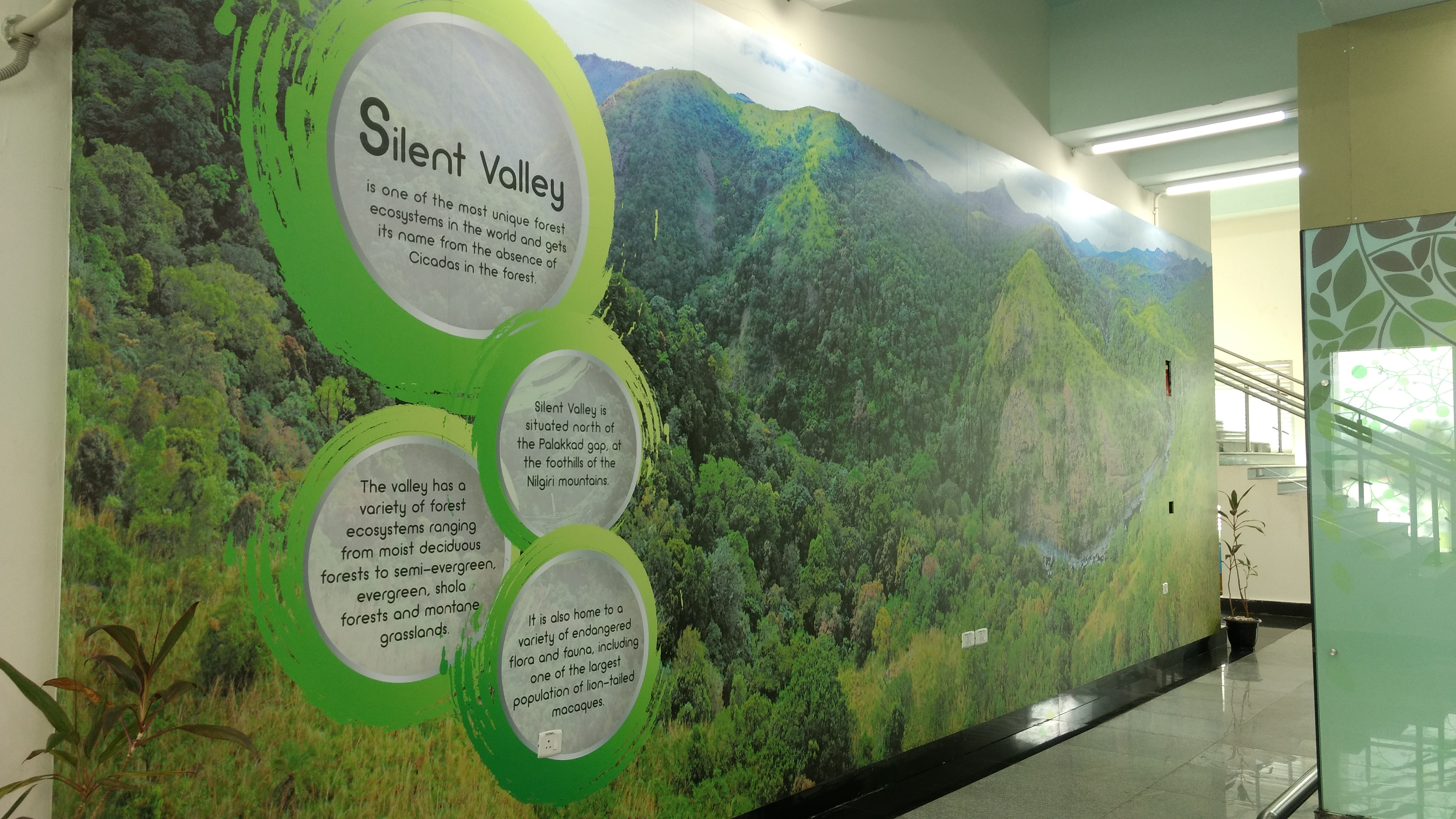 Kochi Metro Pulinchodu station work